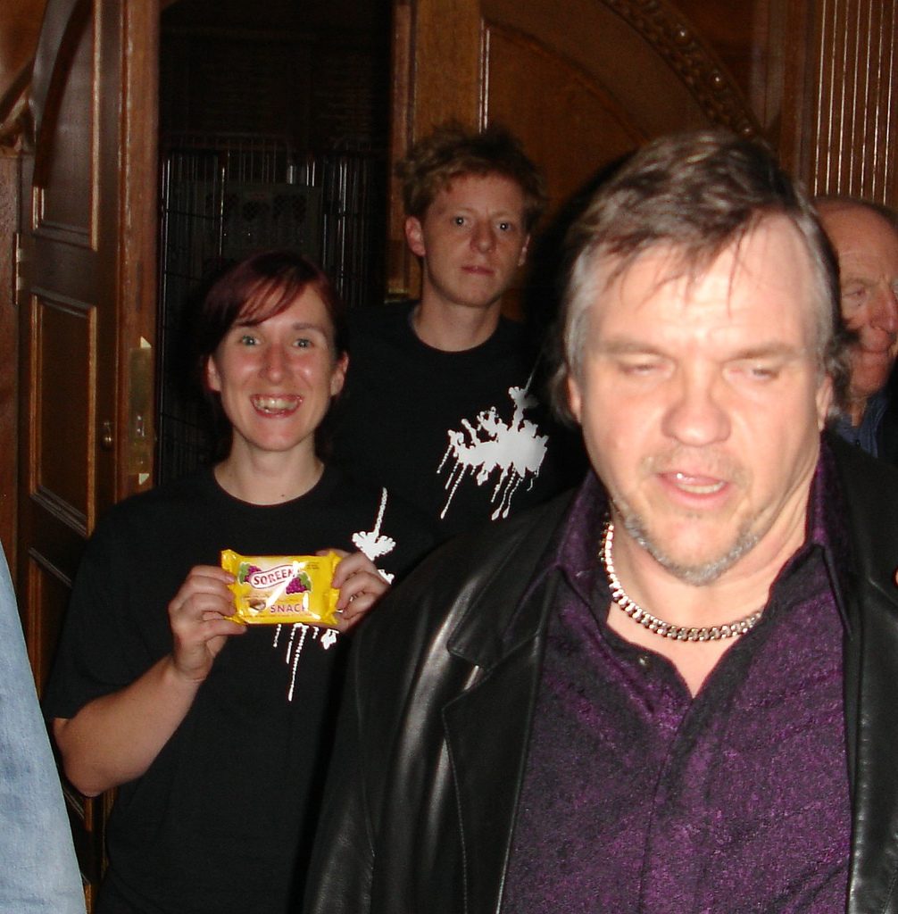 Not to be confused - 'Malt Loaf' = Tasty, low fat snack 'Meat Loaf' = A non food item. Careful - He'll be gone when the morning comes...